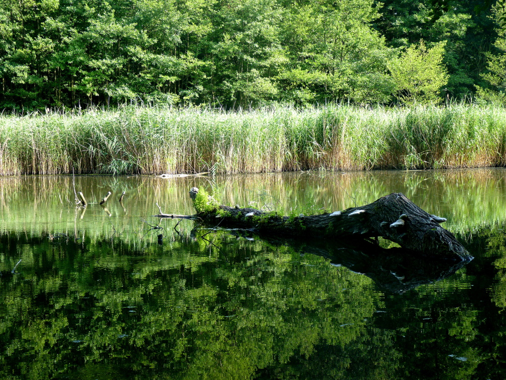 Natural monument Veltrubský luh.